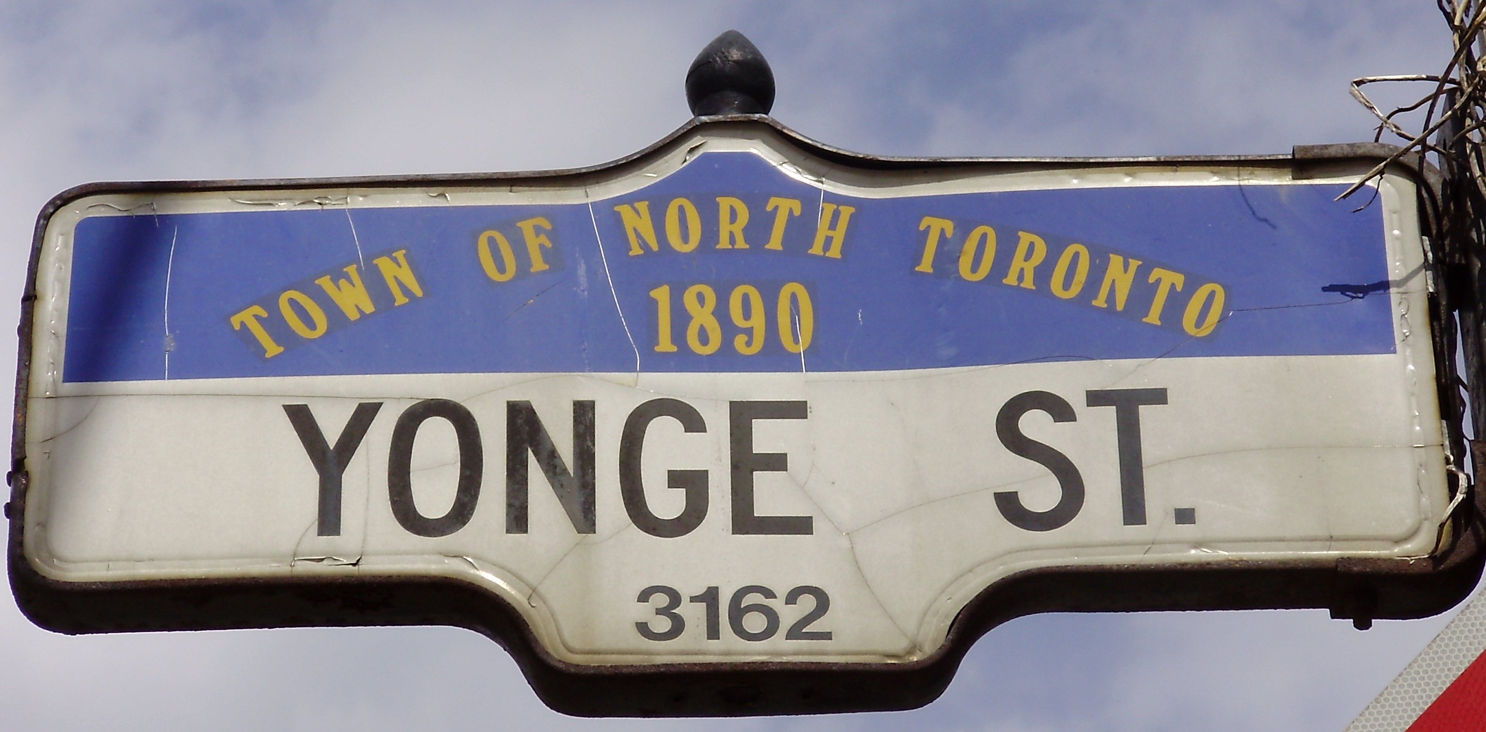 This street sign at Bedford Park Avenue was designed to commemorate the historic Town of North Toronto, now a part of Toronto, Ontario, Canada.